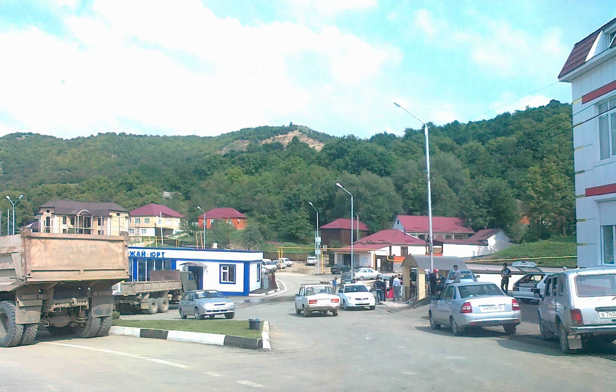 Нохчийн: Нажи-Юрт This file, which was originally posted to was reviewed on 18 August 2016 by reviewer INeverCry, who confirmed that it was available there under the stated license on that date.